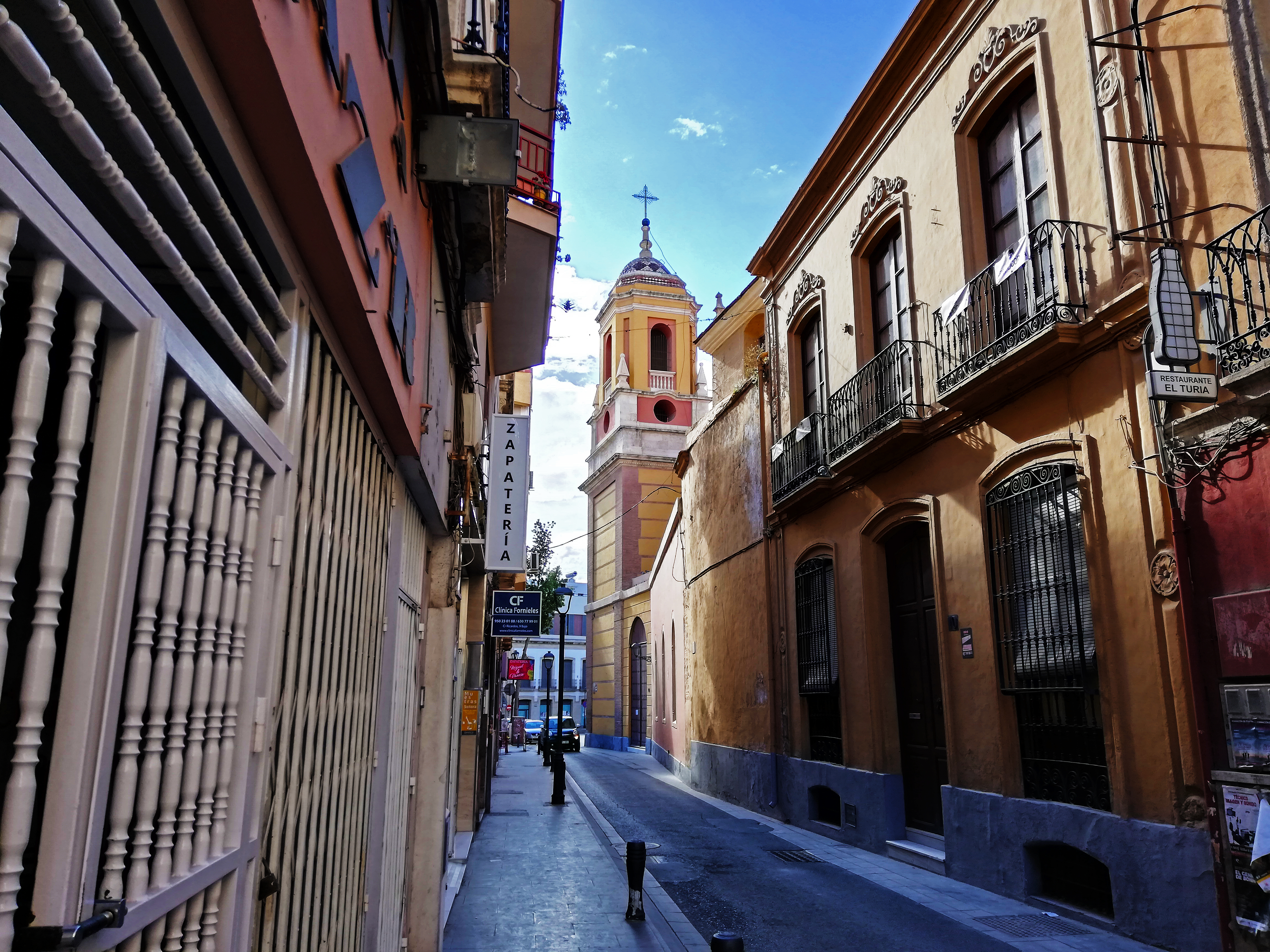 View of the south tower of the Church of San Pedro from Ricardos Street, Almería, Spain